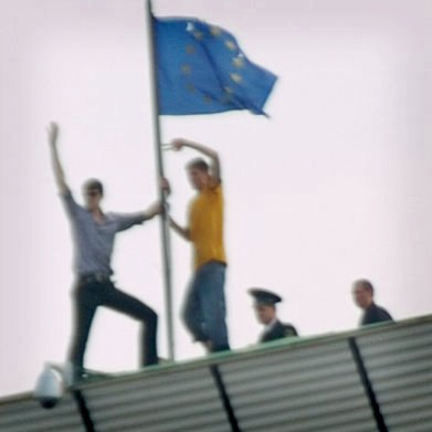 Flag of the EU on the Government building in Chisinau, Moldova.